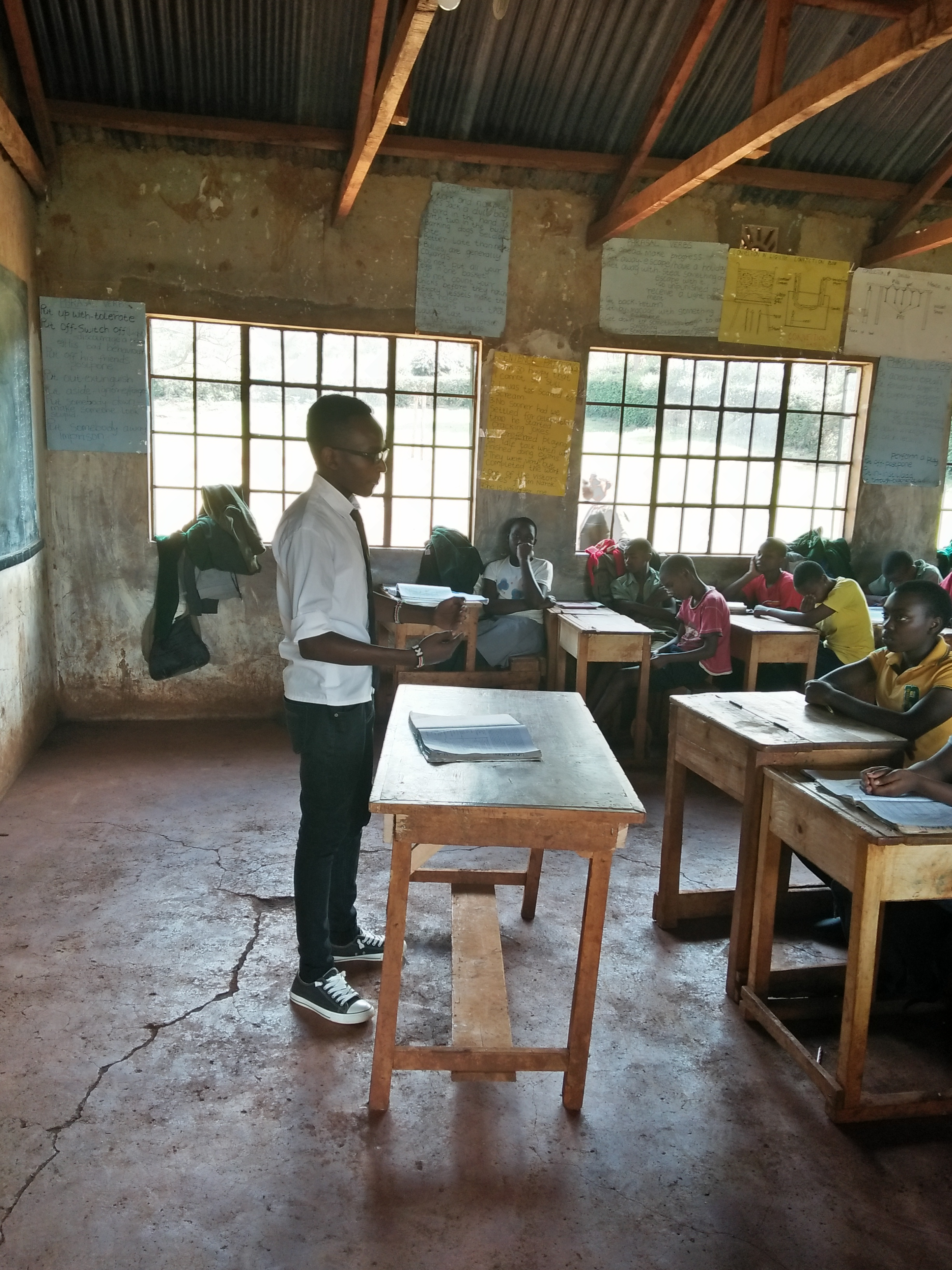 A motivation session to 2017 K. C. P. E students from Hill Farm Primary school nyeri. This is an image of "African people at work" from Kenya